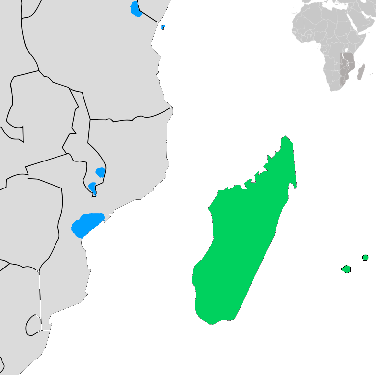 Range map for Phedina brazzae Based on Turner, Angela K; Rose, Chris (1989) A Handbook to the Swallows and Martins of the World, London: Christopher Helm, p. 58 ISBN: 0-7470-3202-5. IUCN species page Mapped onto 2000px-Blank_Map-Africa.svg.png